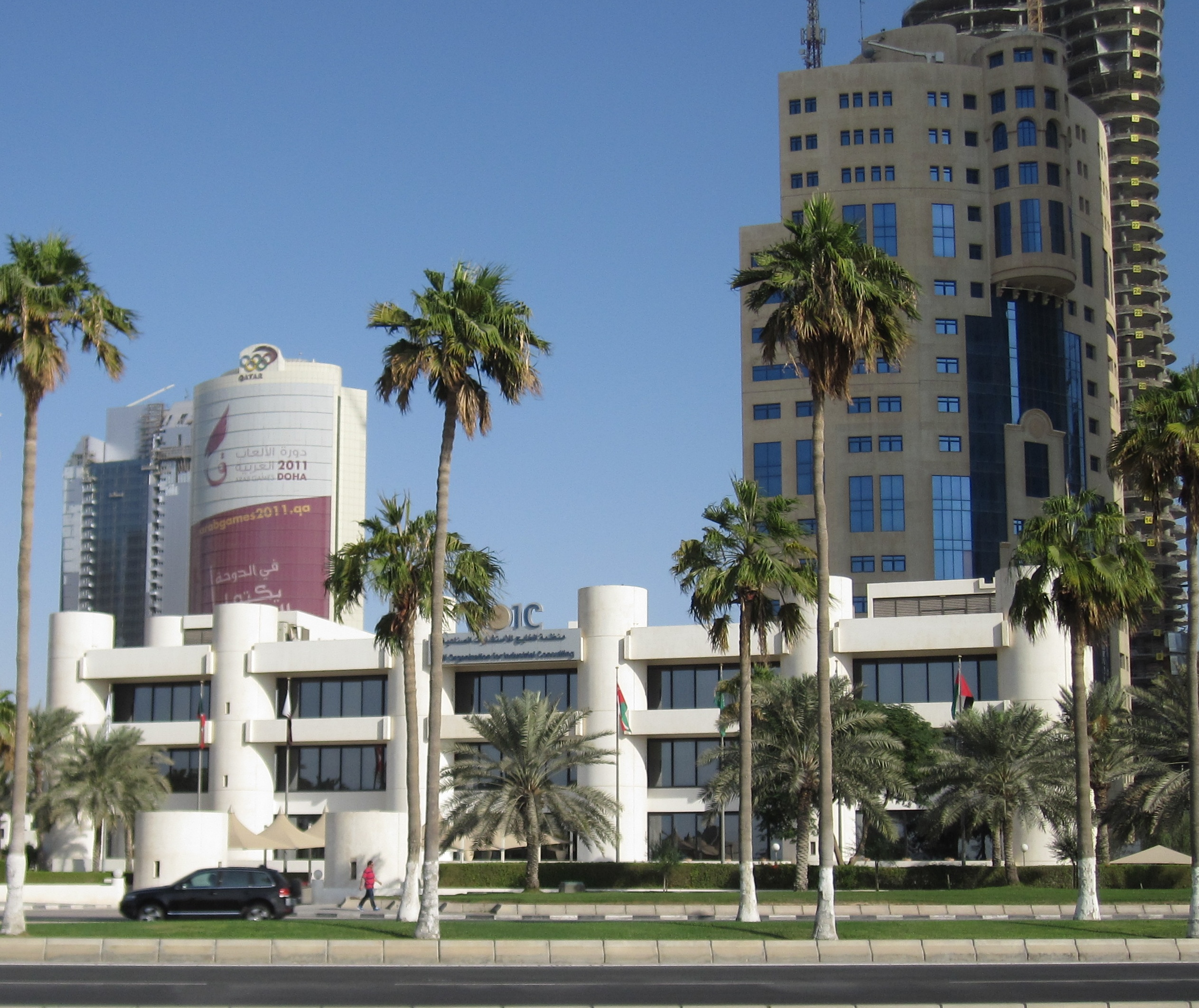 Gulf Organization for Industrial Consulting GOIC, Al Corniche, Doha